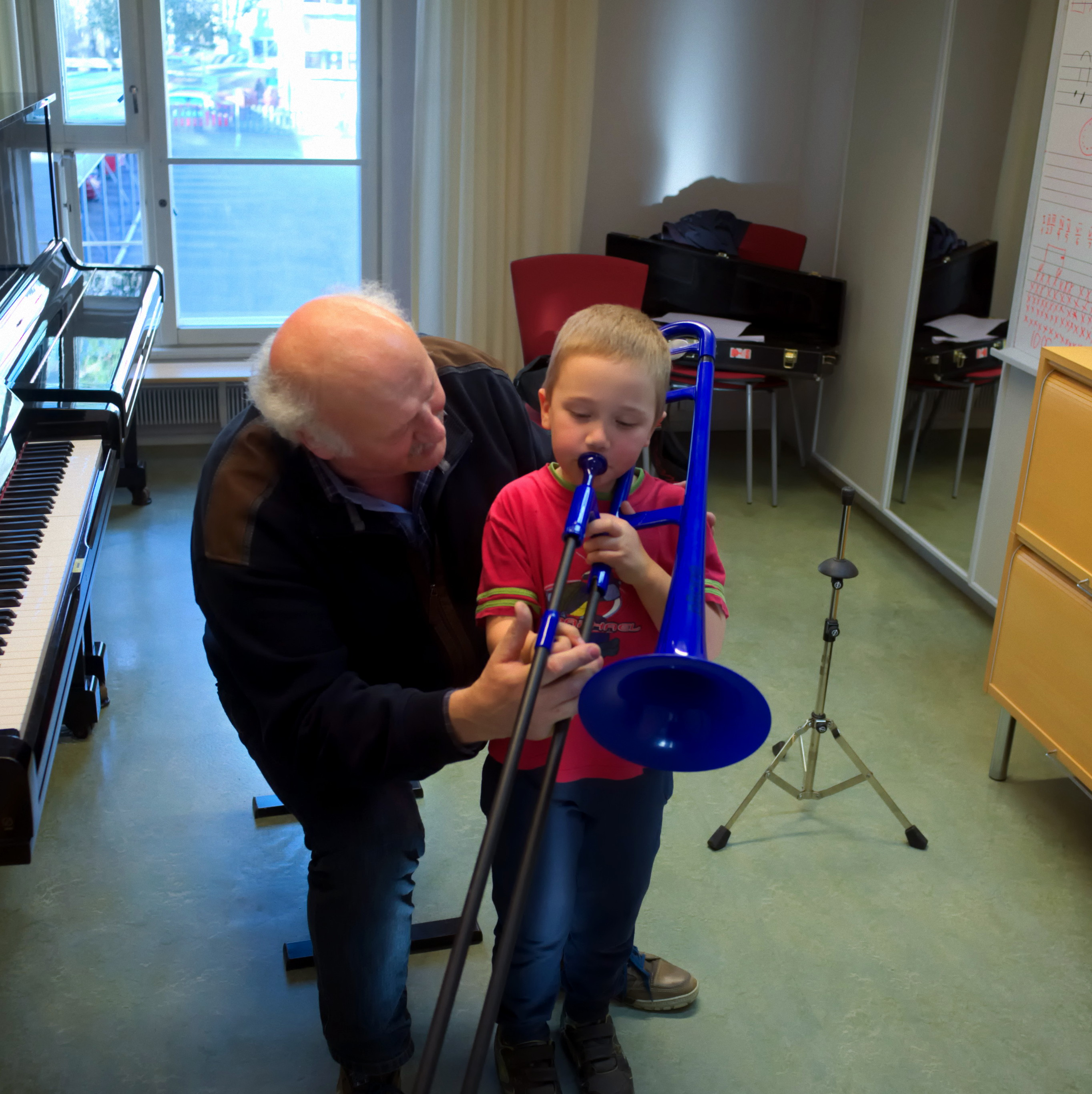 Young Trombonist